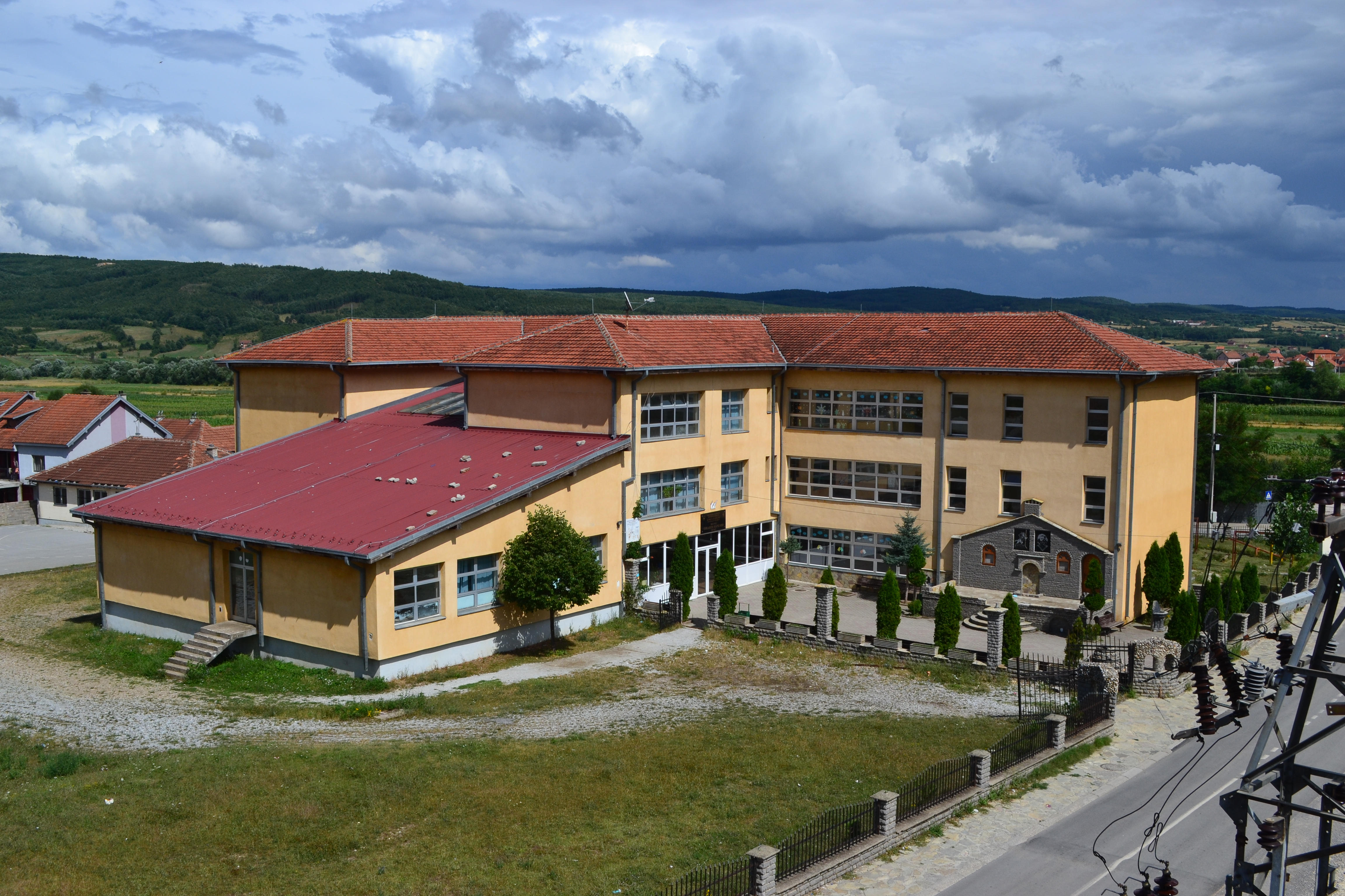 Here's a photo of the elementary school of Shalë, taked from a house near of the school.